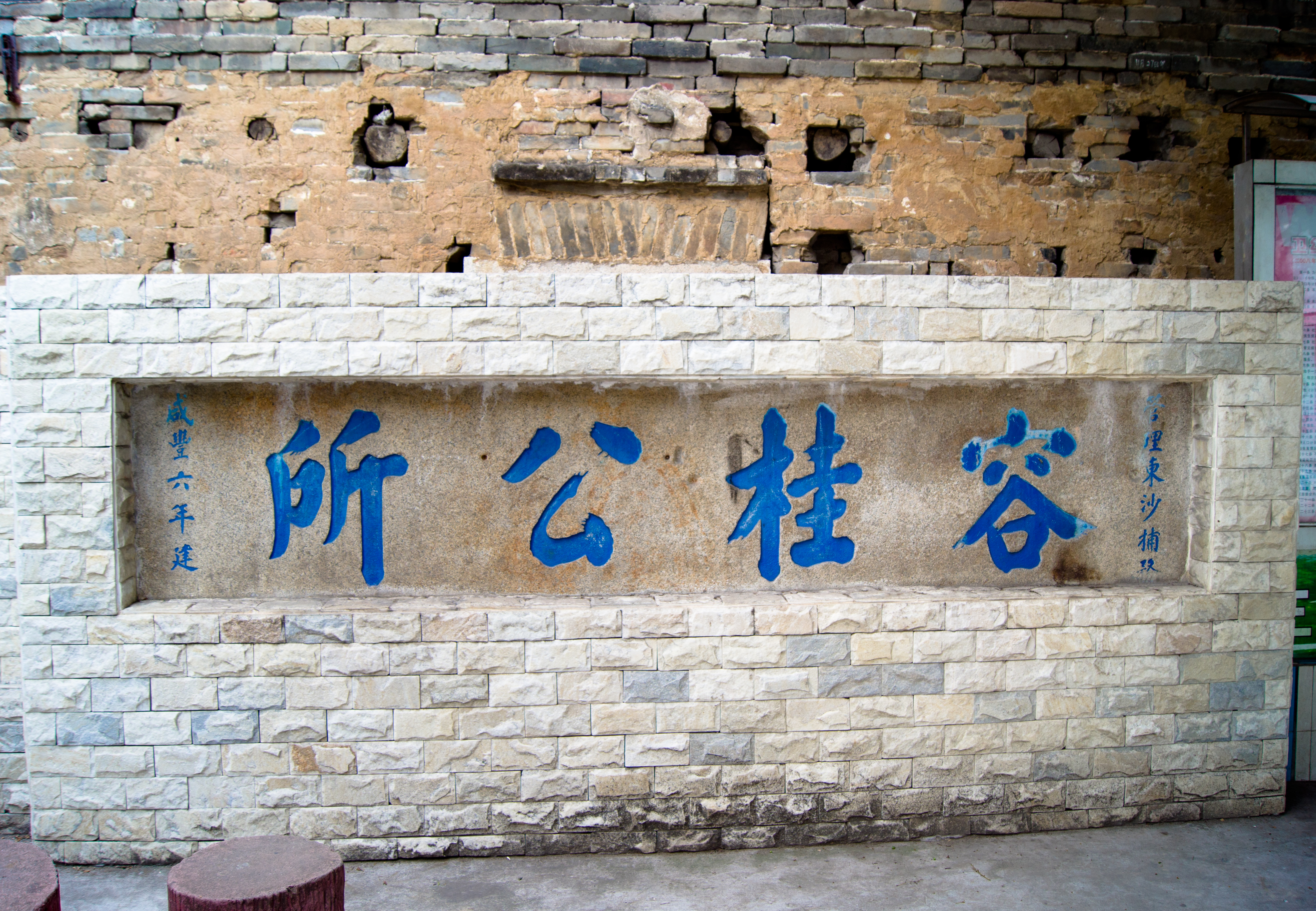 Ronggui Gongsuo stone plaque. To its left is the Ronggui Zhijie History Stone.